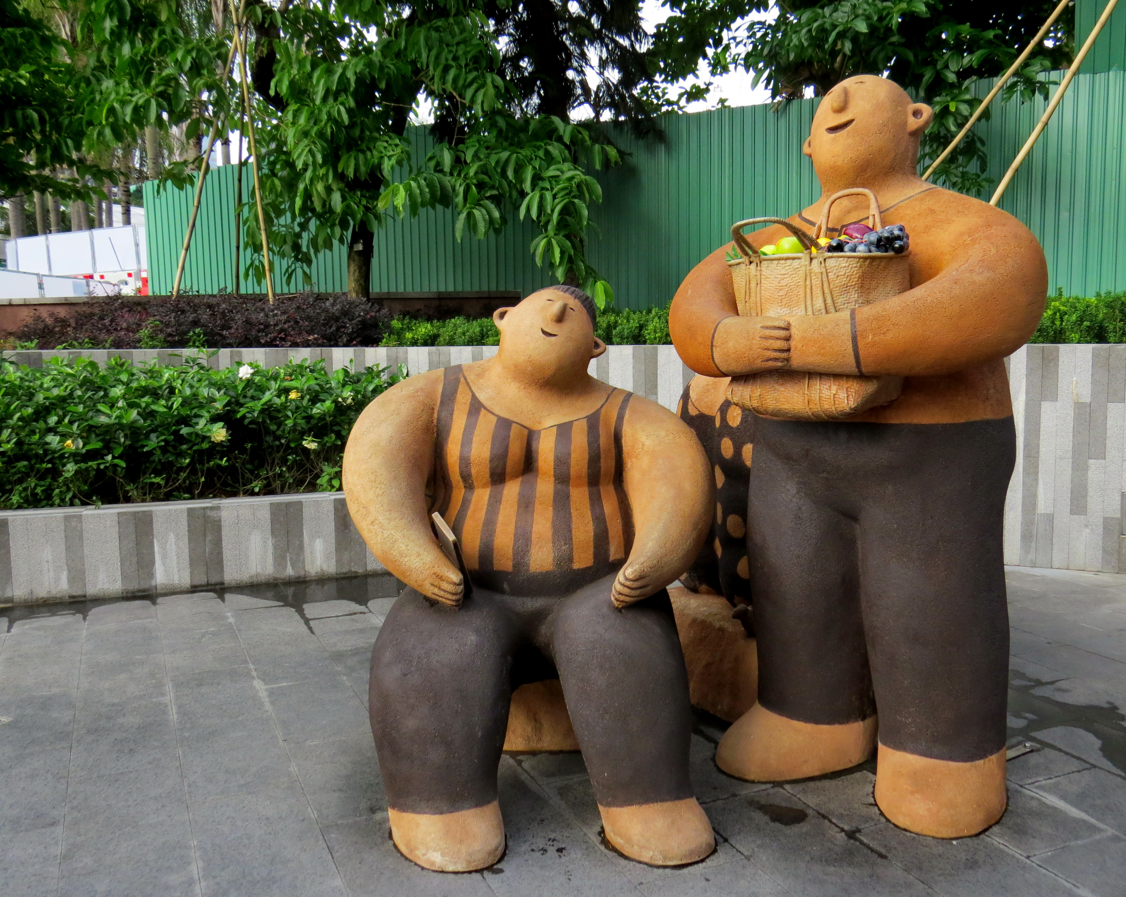 Happy Folks I sculpture (artist- Rosanna Li) "Heaven, Earth and Man — A Hong Kong Art Exhibition" Art Square at Salisbury Garden, Hong Kong Museum of Art, Kowloon, Hong Kong.